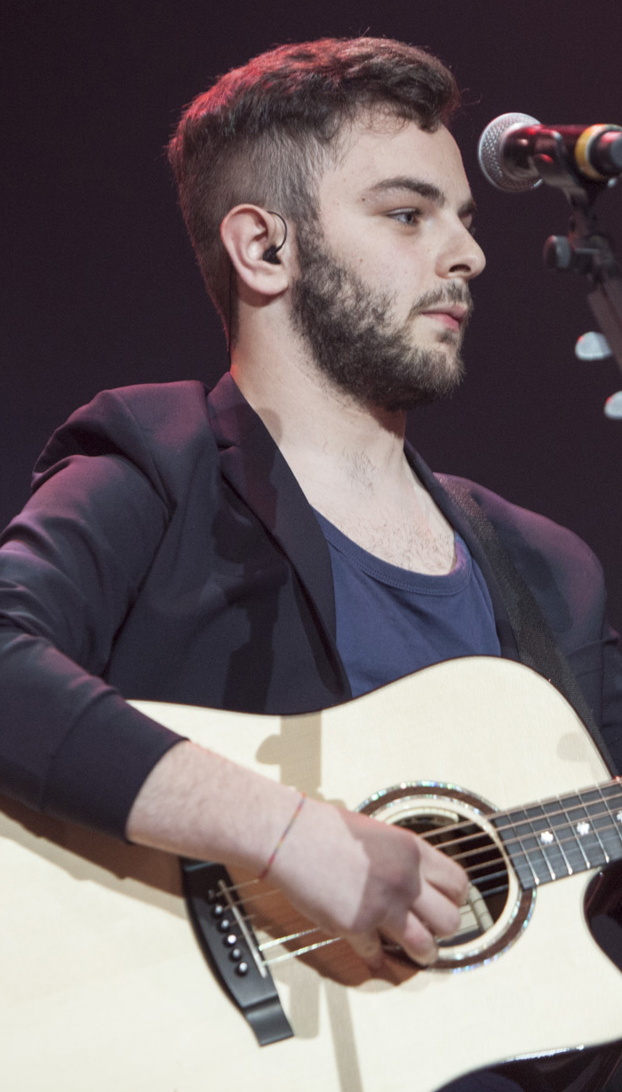 Lorenzo Fragola guest Fedez @ Mediolanum Forum 21/03/2015 © 2015 Ikka Mirabelli Visit my website: This image is copyright © Ikka Mirabelli. All right reserved. This photo must not be used under ANY circumstances without written consent.